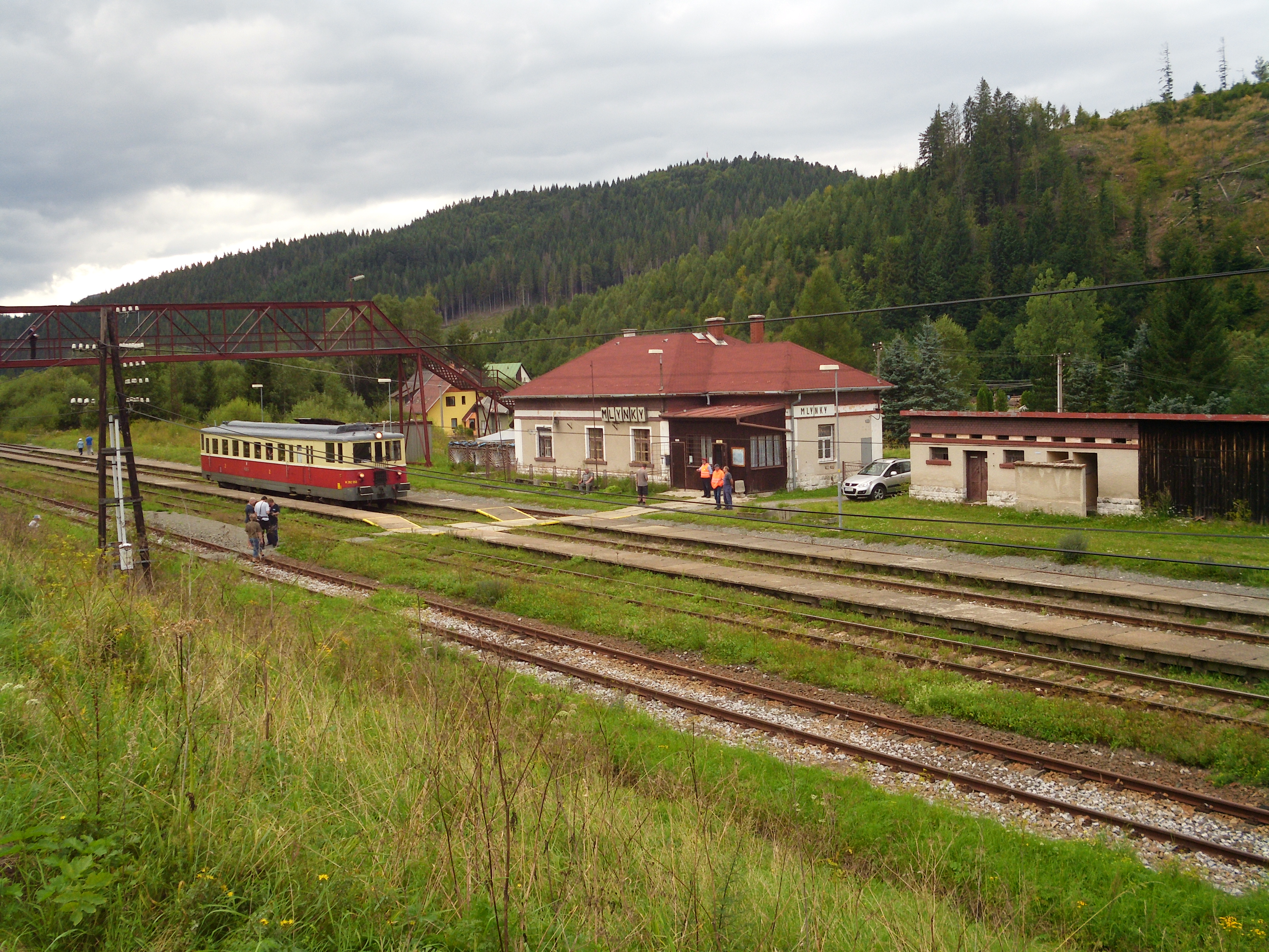 Diesel railcar 830 (marked as M262, belonging to KŽC Doprava) at a station in Mlynky on a route from Červená Skala to Margecany.